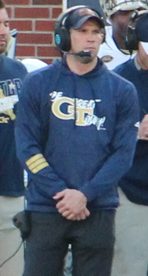 GT Football Spring Game 2019